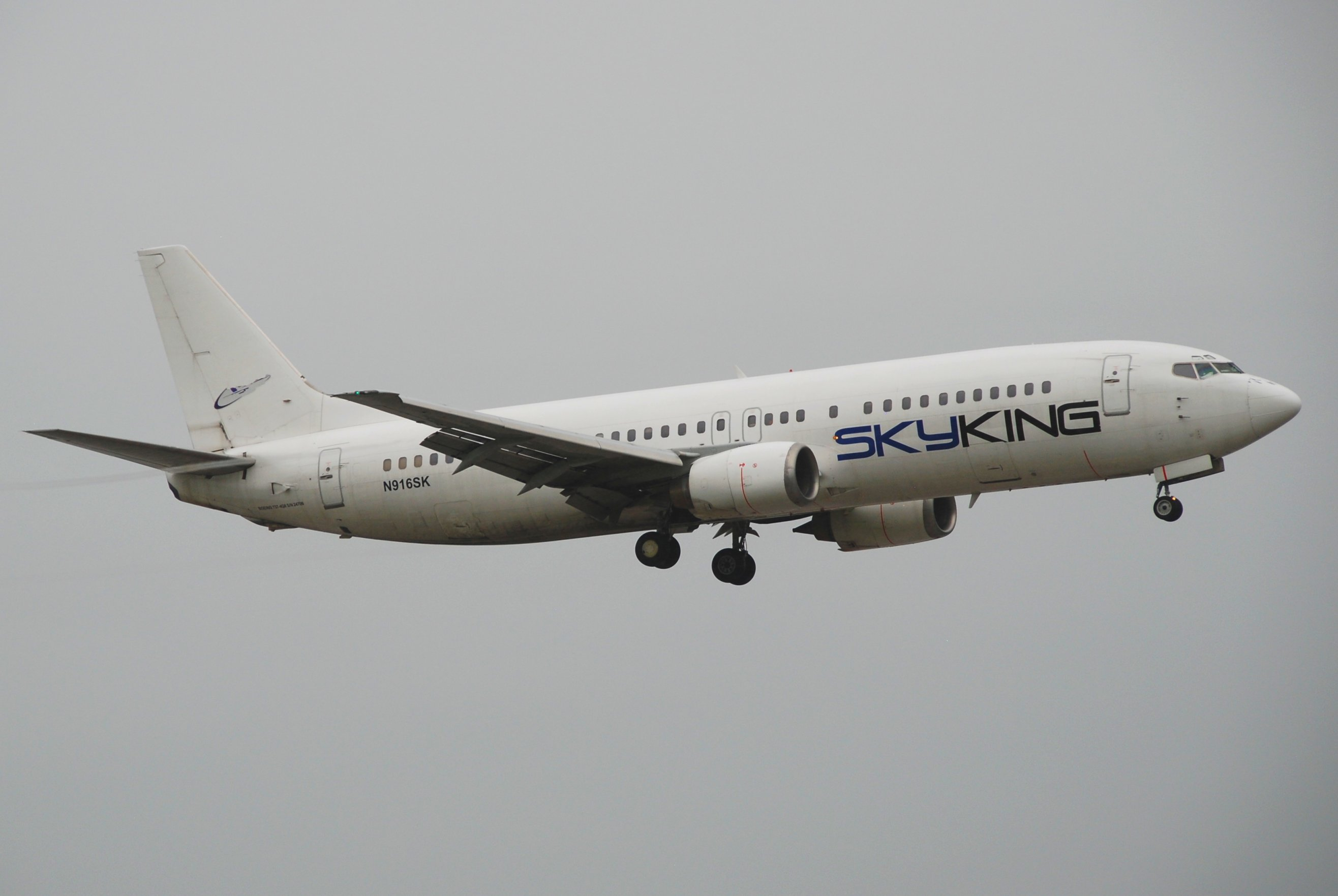 This Boeing 737-4Q8 first flew on February 1, 1991...(c/n 24706/ 1996) 15/02/1991 Malaysia Airlines 9M-MJD lsd ILFC 20/04/1994 Air Europa EC-644 lsd ILFC 12/08/1994 Air Europa EC-FXP lsd ILFC 22/03/1998 Iberia EC-FXP 01/10/1998 Air Europa EC-FXP lsd ILFC 23/12/2004 Air Horizons F-GRNH Ceased operations 07 Dec. 05 25/03/2006 Centralwings SP-LLI Ceased operations 31/03/09 10/09/2009 Sky King N916SK